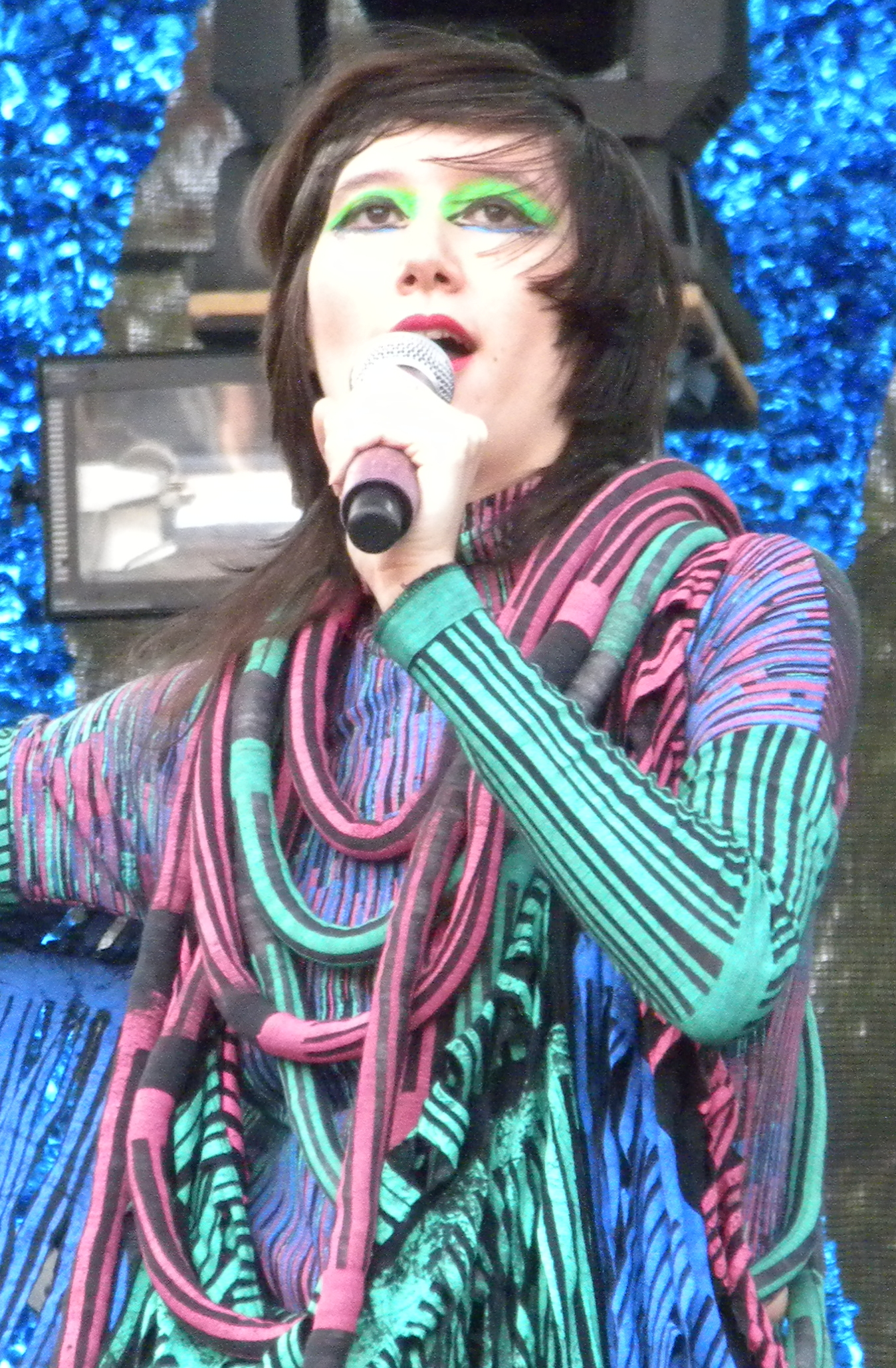 Karen O performing with her band Yeah Yeah Yeahs at Bumbershoot '09